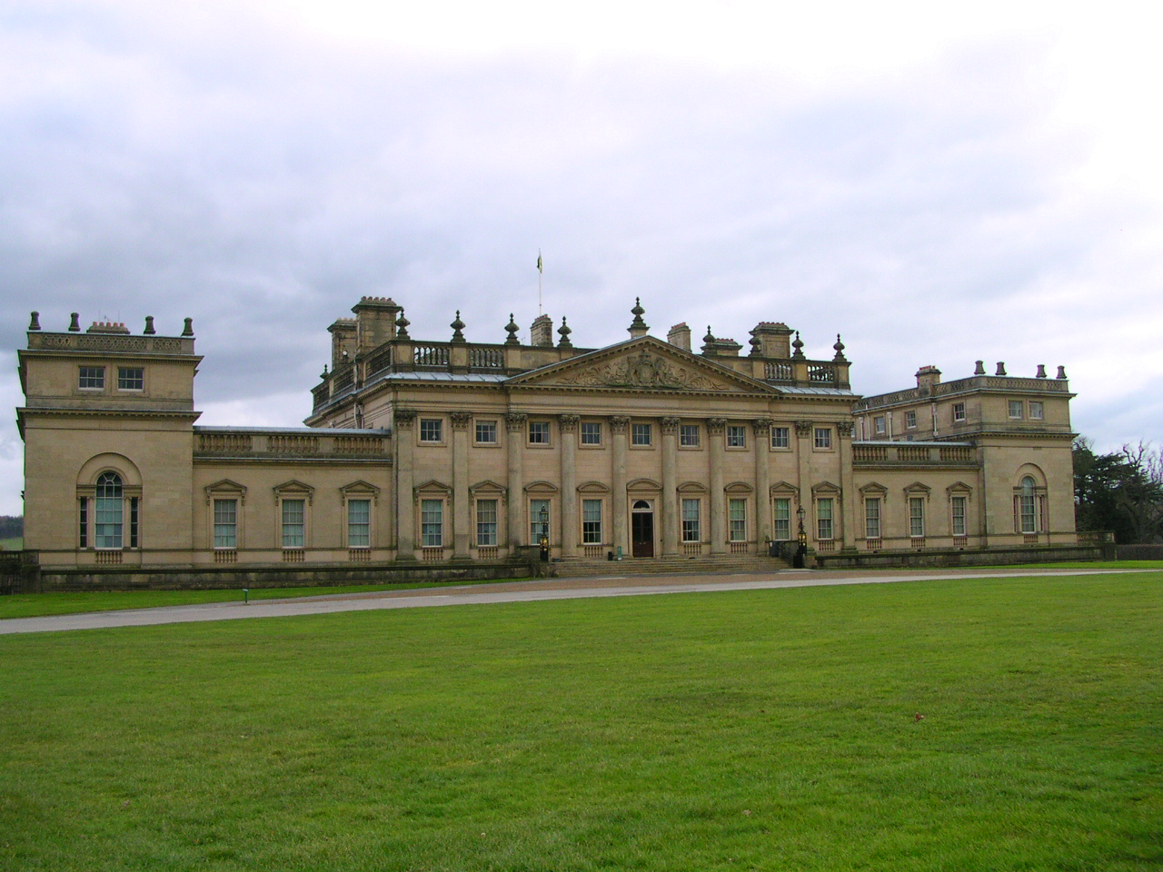 Harewood House, near Leeds, England.